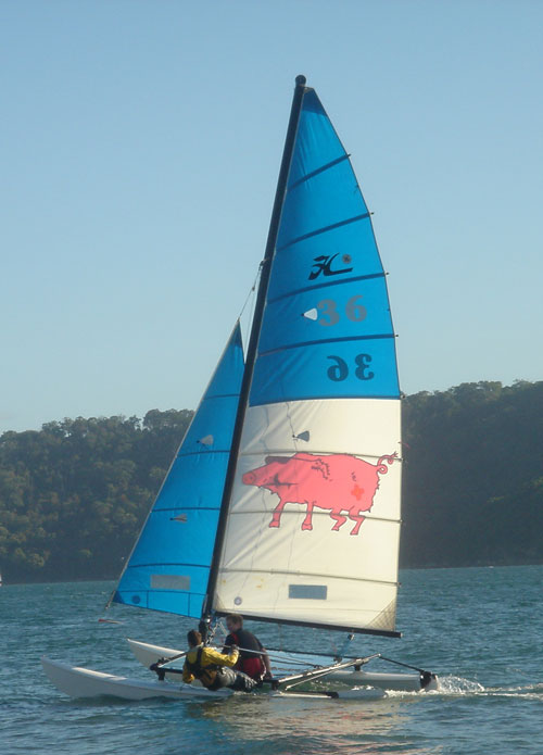 A Hobie 16 'The Pig' in action on Pittwater, Australia